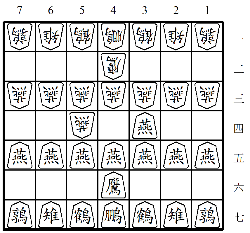 Initial setups of Tori shogi (禽将棋)